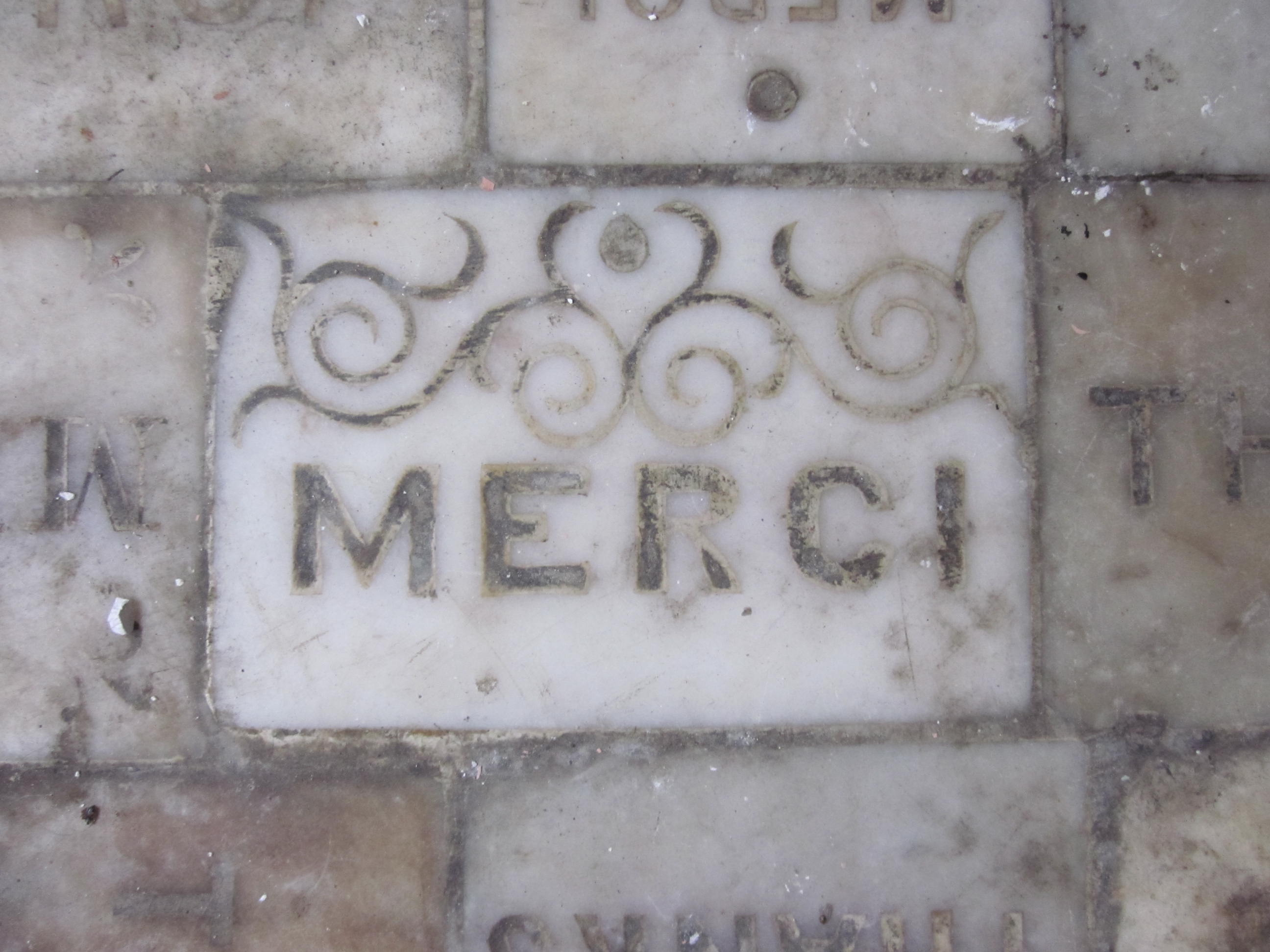 New Orleans: Saint Roch Cemetery.